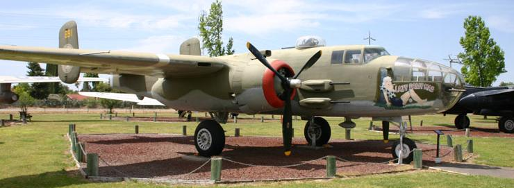 B-25J-30NC 44-86891 Lazy Daisy Mae - Castle AFB Museum